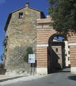 porta di s.angelo